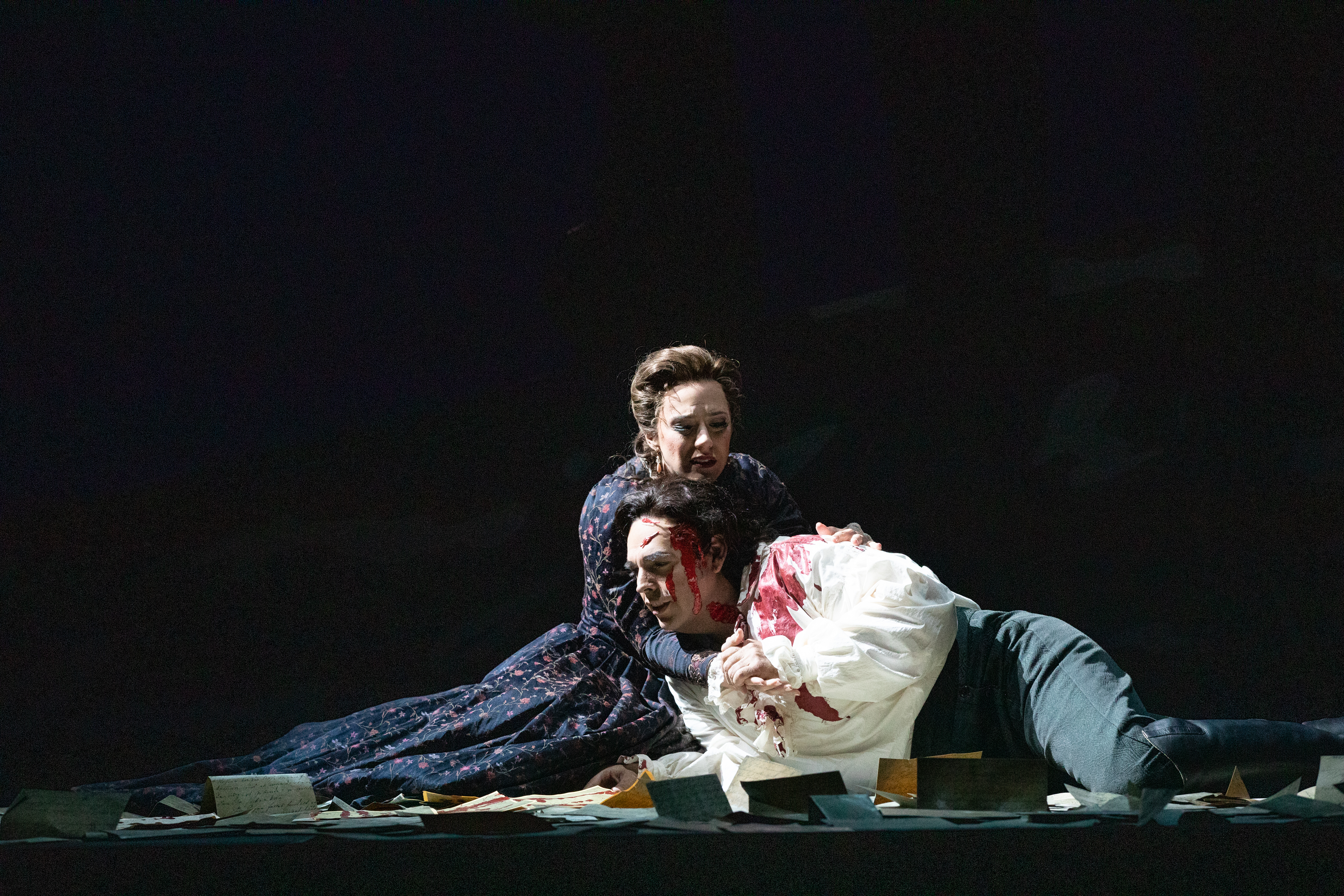 Photo by Daniel Azoulay